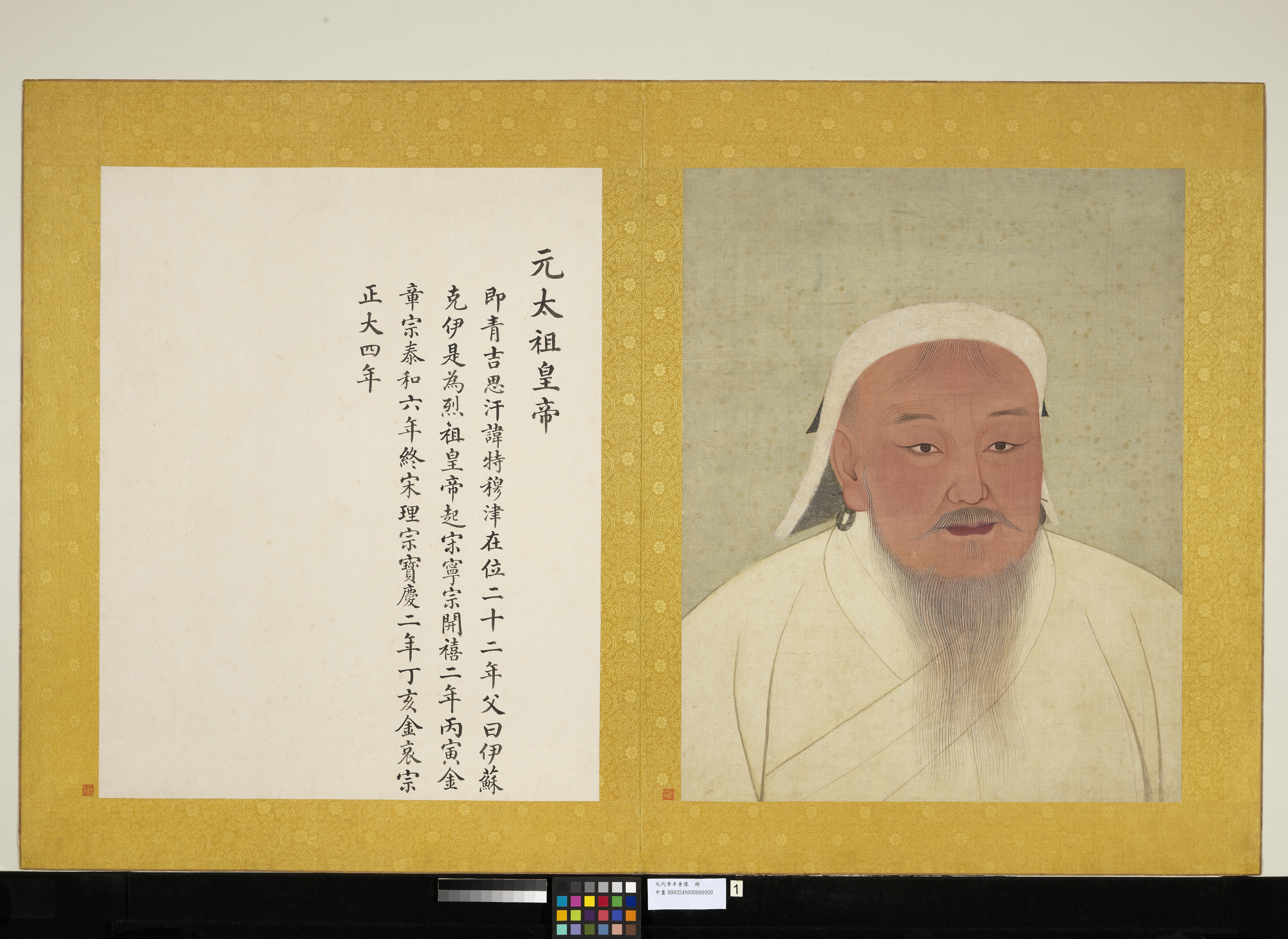 Emperor Taizu of Yuan, better known as Genghis Khan. Page from an album depicting several Yuan emperors (Yuandai di banshenxiang), now located in the National Palace Museum in Taipei (inv. nr. zhonghua 000324). Original size is 116.1 cm wide and 74.1 cm high. Paint and ink on silk. For the portrait cropped out, see Image:YuanEmperorAlbumGenghisPortrait.jpg. 元太祖皇帝，即青吉斯汗，諱特穆津，在位二十二年。父曰伊蘇克伊是為烈祖皇帝。起宋甯宗開禧二年丙寅，金章宗泰和六年；終宋理宗寶慶二年丁亥，金哀宗正大四年。 Emperor Taizu of Yuan, i.e., Genghis Khan, personal name Temujin, reigned 22 years. His father is Yesugei, that is Emperor Liezu. He reigned from the 2nd year of Kaixi era of Emperor Ningzong of Song, Bingyin, or the 6th year of Taihe era of Emperor Zhangzong of Jin (ca. 1206), to the 2nd year of Baoqing era of Emperor Lizong of Song, Dinghai, or 4th year of Zhengda era of Aizong of Jin (ca. 1236).